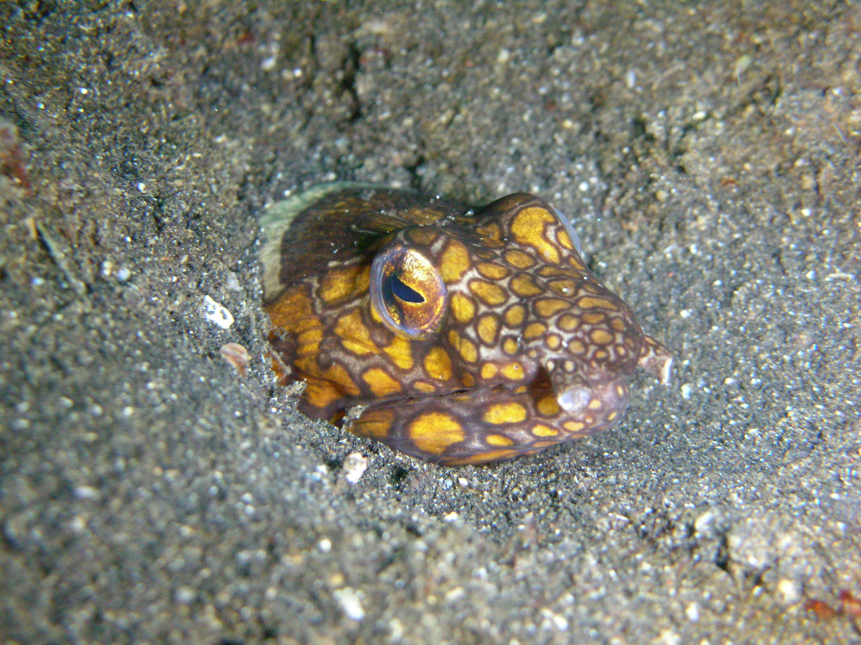 Ophichthus bonaparti - Clown Snake Eel